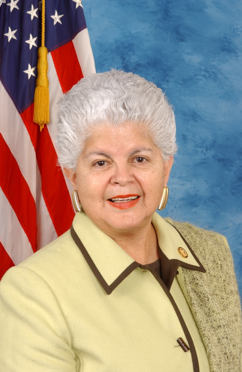 Grace Napolitano, member of the United States House of Representatives.